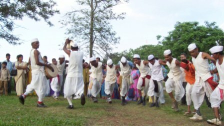 Dhodia